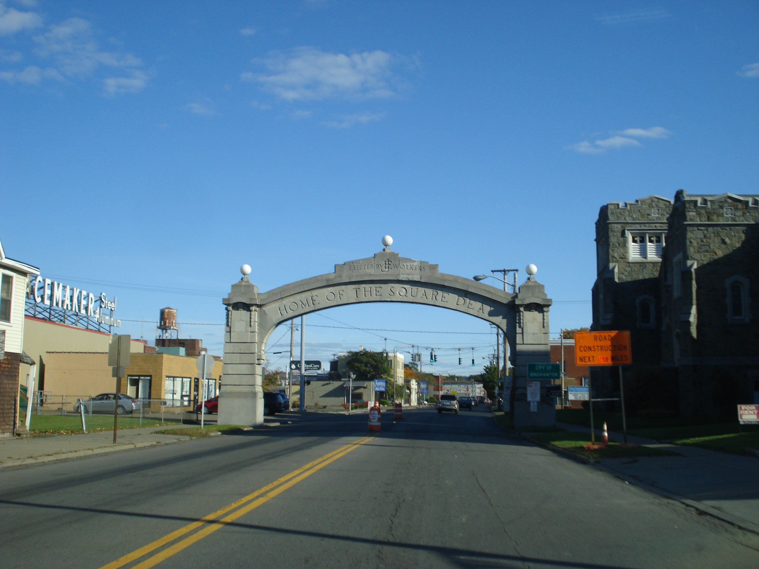 Main St. Binghamon, NY, USA.